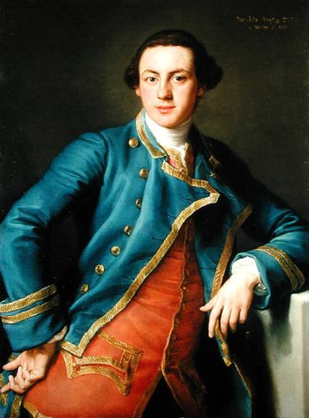 Portrait of Sir John Armytage, 2nd Baronet (1732–1758)